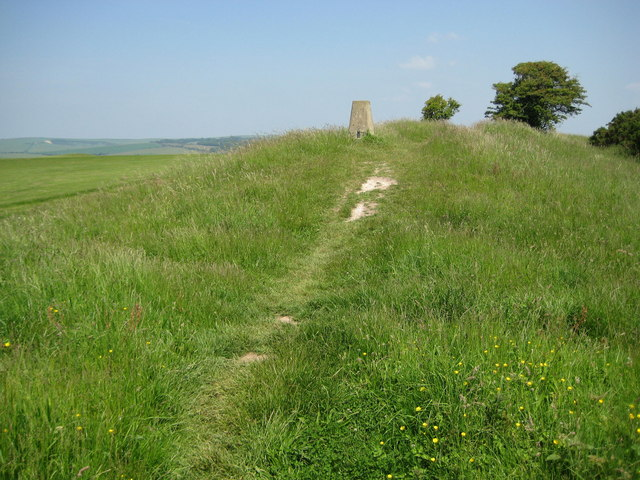 Hollingbury Castle Triangulation Pillar This is a Second Order pillar with the fine mark at OSGB E 532141.375, N 107942.656. The height of the flush bracket is 178.472 metres above sea level.